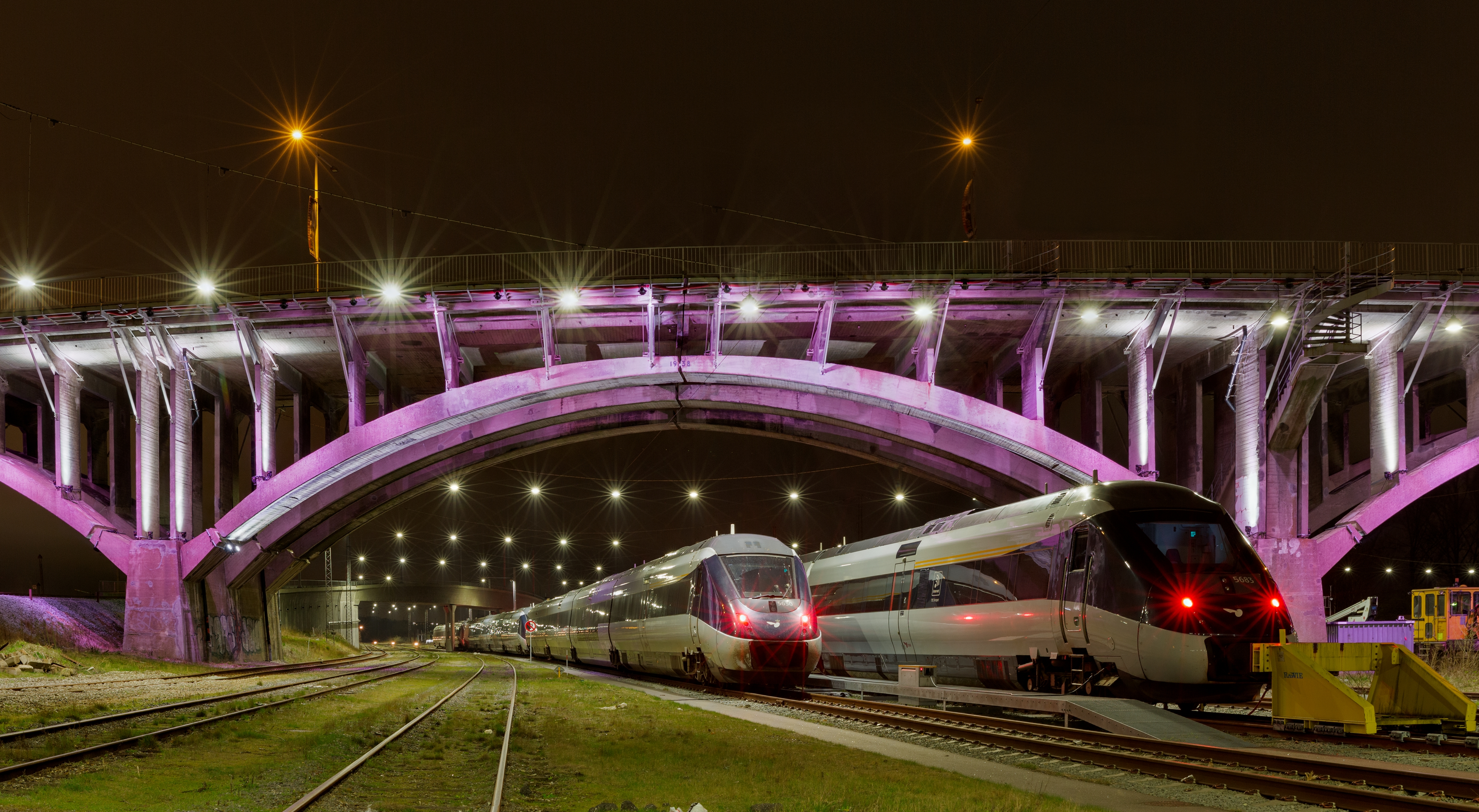 Multiple IC4 diesel units under the Ringgade bridge with «Hesitation of Light» light installation in Aarhus, Denmark